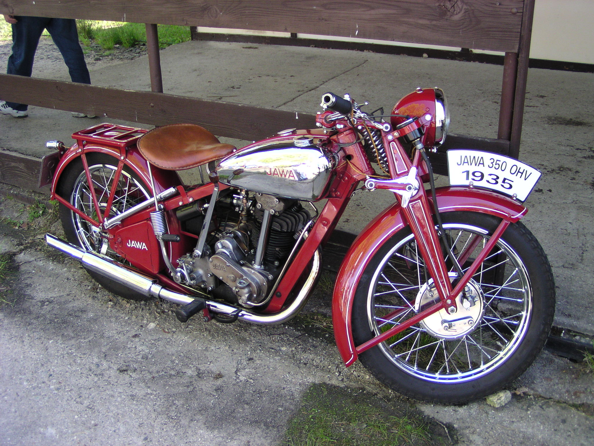 Jawa 350 OHV (Veteran Rallye Krivonoska 2008)